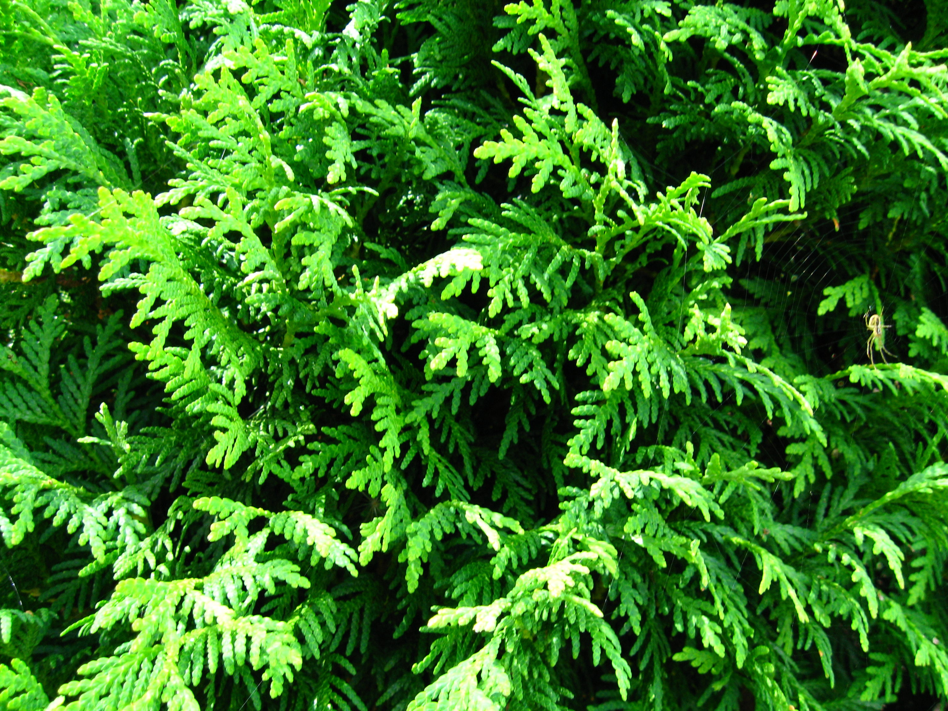 Northern Whitecedar var. Hoseri (Thuja occidentalis 'Hoseri')